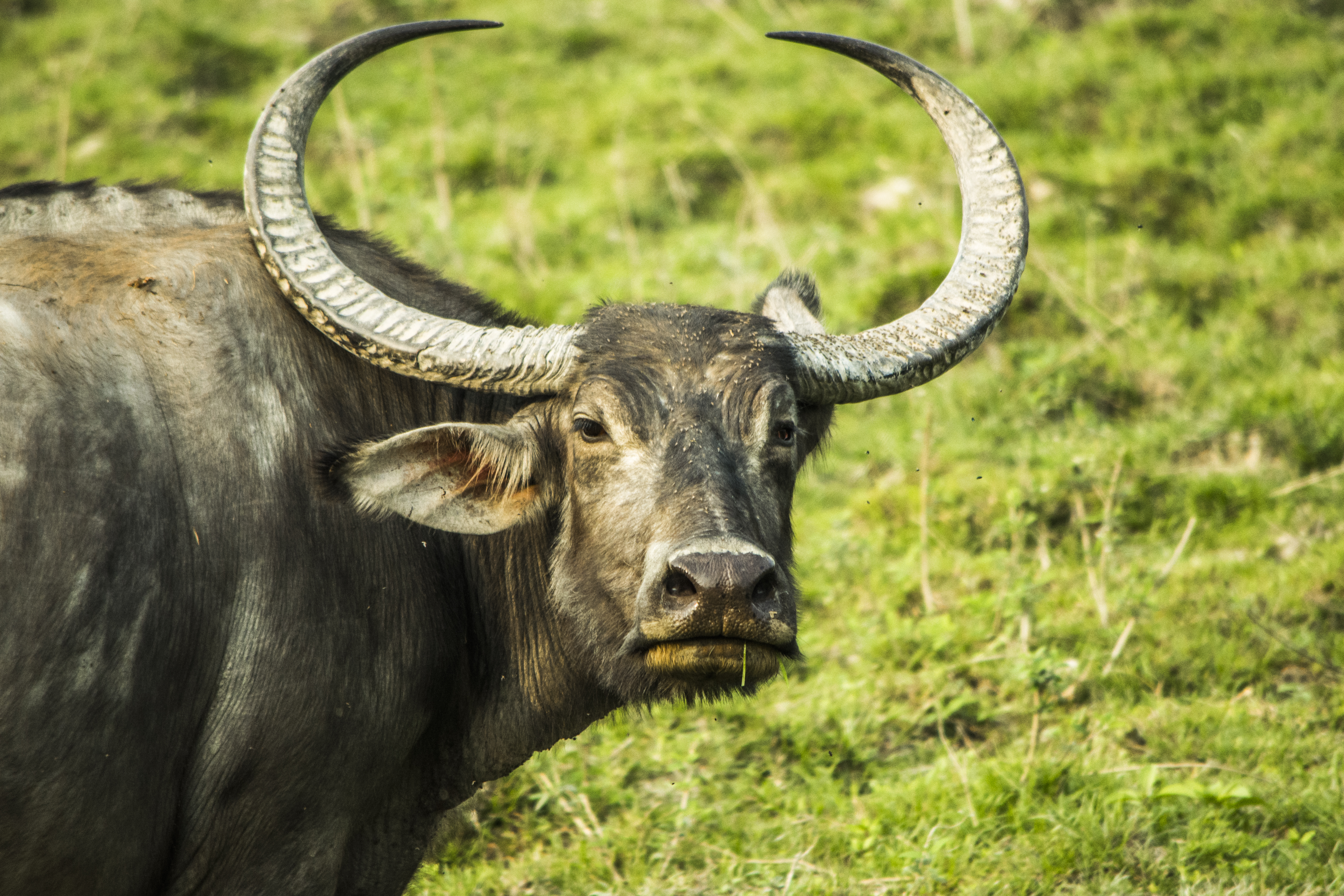 @ assam